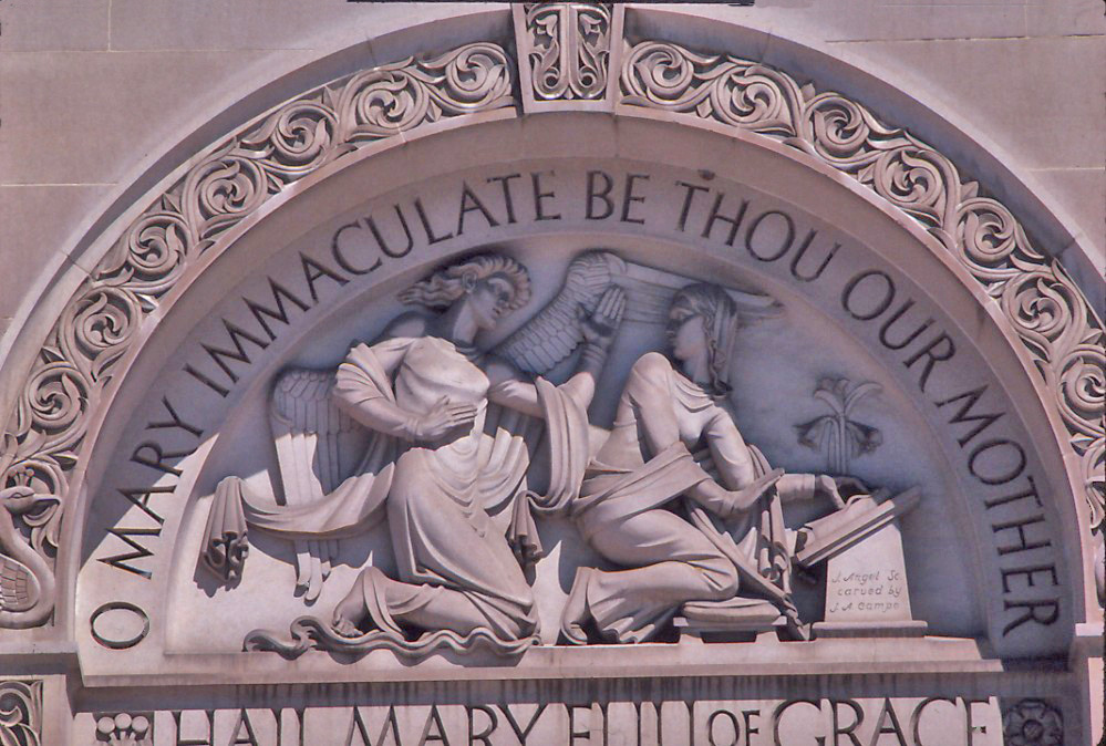 Tympanum at Basilica of the National Shrine of the Immaculate Conception by sculptor John Angel